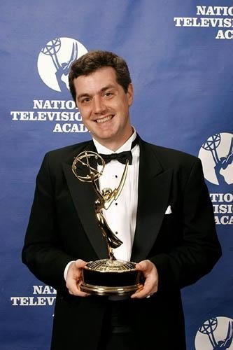 Bruce Kennedy, television producer. "The photo was a publicity shot commissioned by myself as a work for hire. "